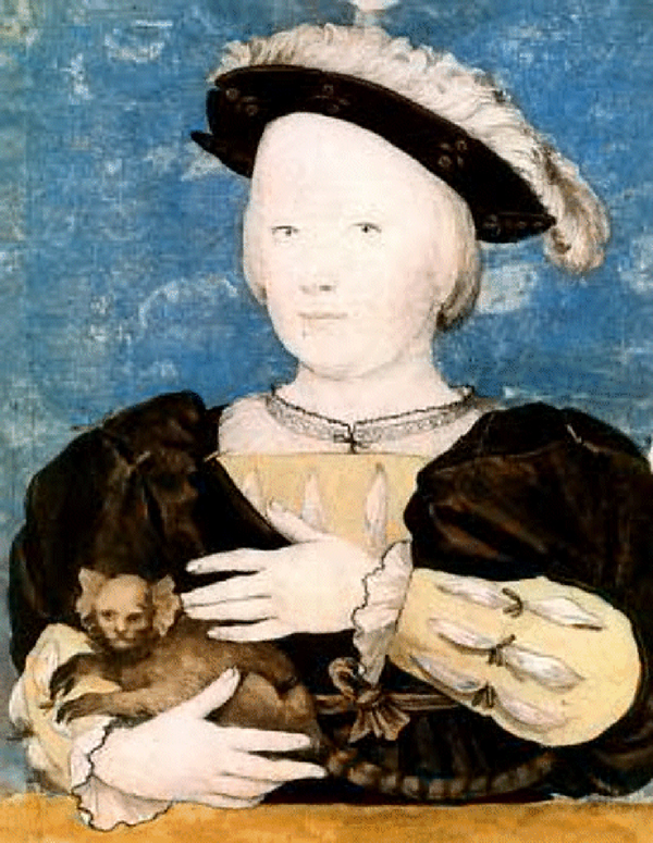 This painting has often been said to actually be a painting of King Edward VI., but this has been refuted.